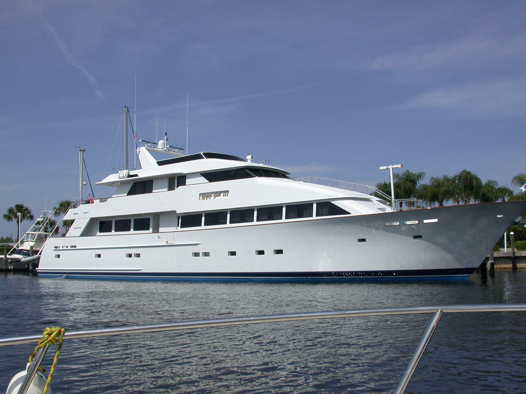 Yacht name : Gypsy Girl III Formerly : Carolina Later named: Costa Brava III Length : 121 ft • 37 m Year : 1995